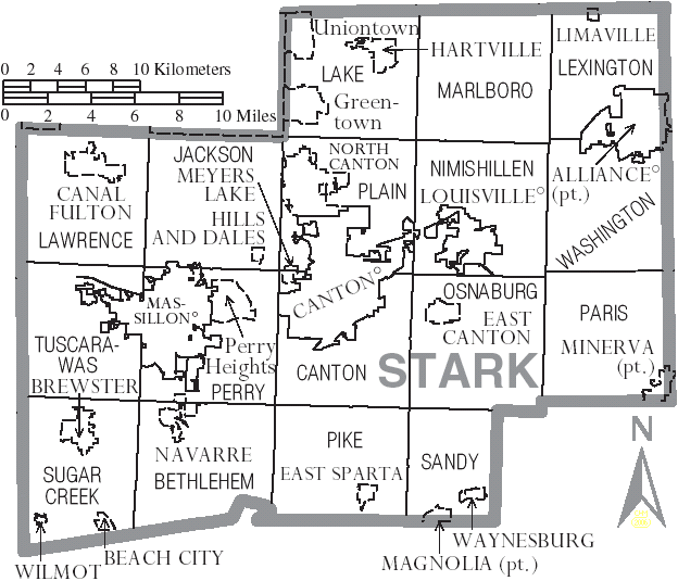 Map of Stark County, Ohio, United States with township and municipal boundaries